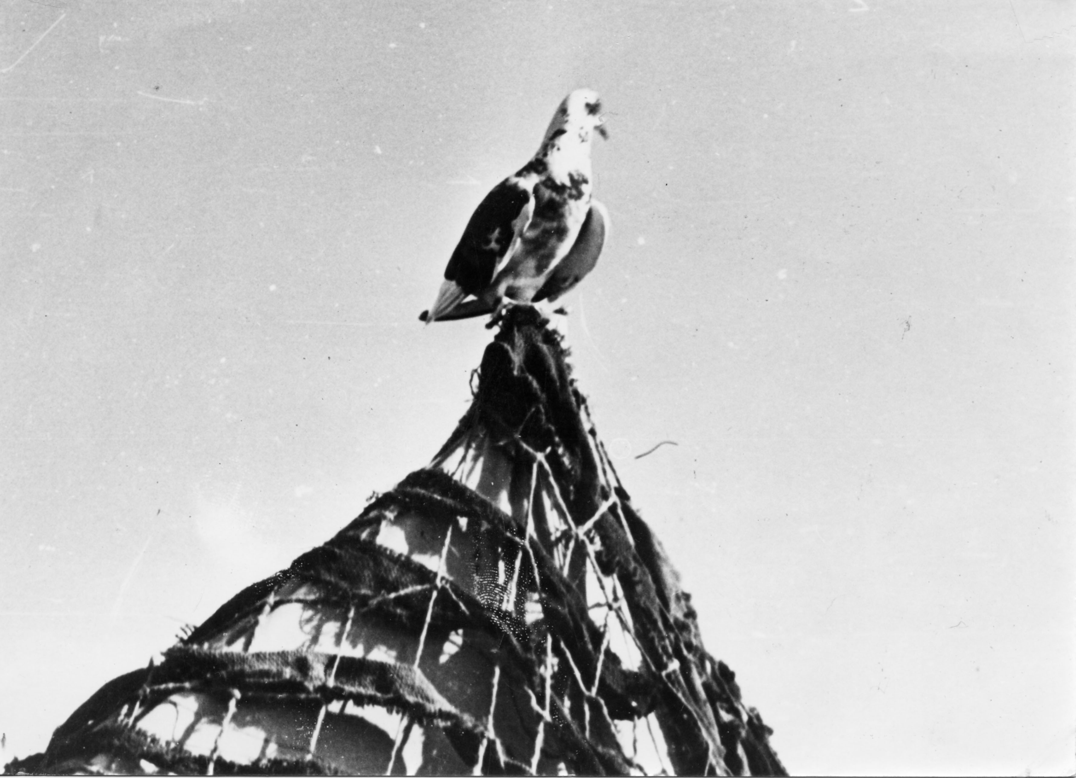 The Palmach, Israel Defense Forces